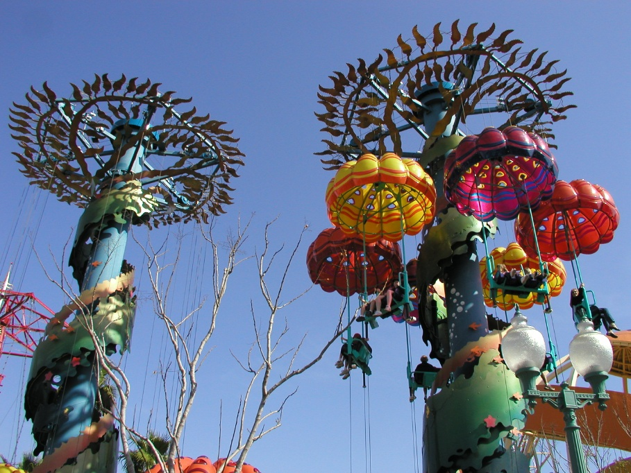 Guests onboard the Jumpin' Jellyfish . Taken from Image:Jumpin Jellyfish.jpg